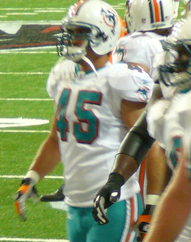 If used somewhere other than Wikipedia, Nelson, by name.